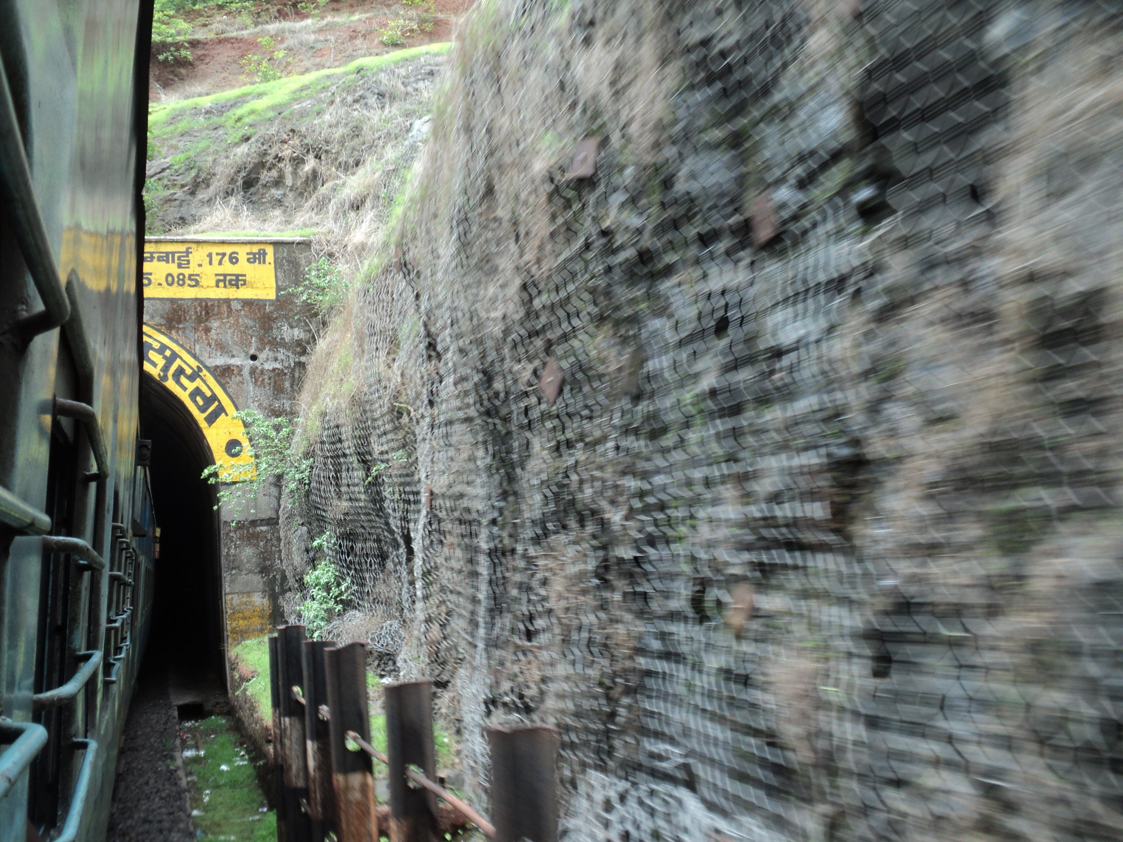 Chain Locked